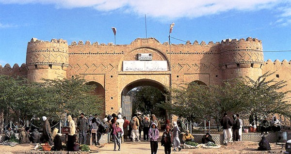 Chabahar coast, Iran